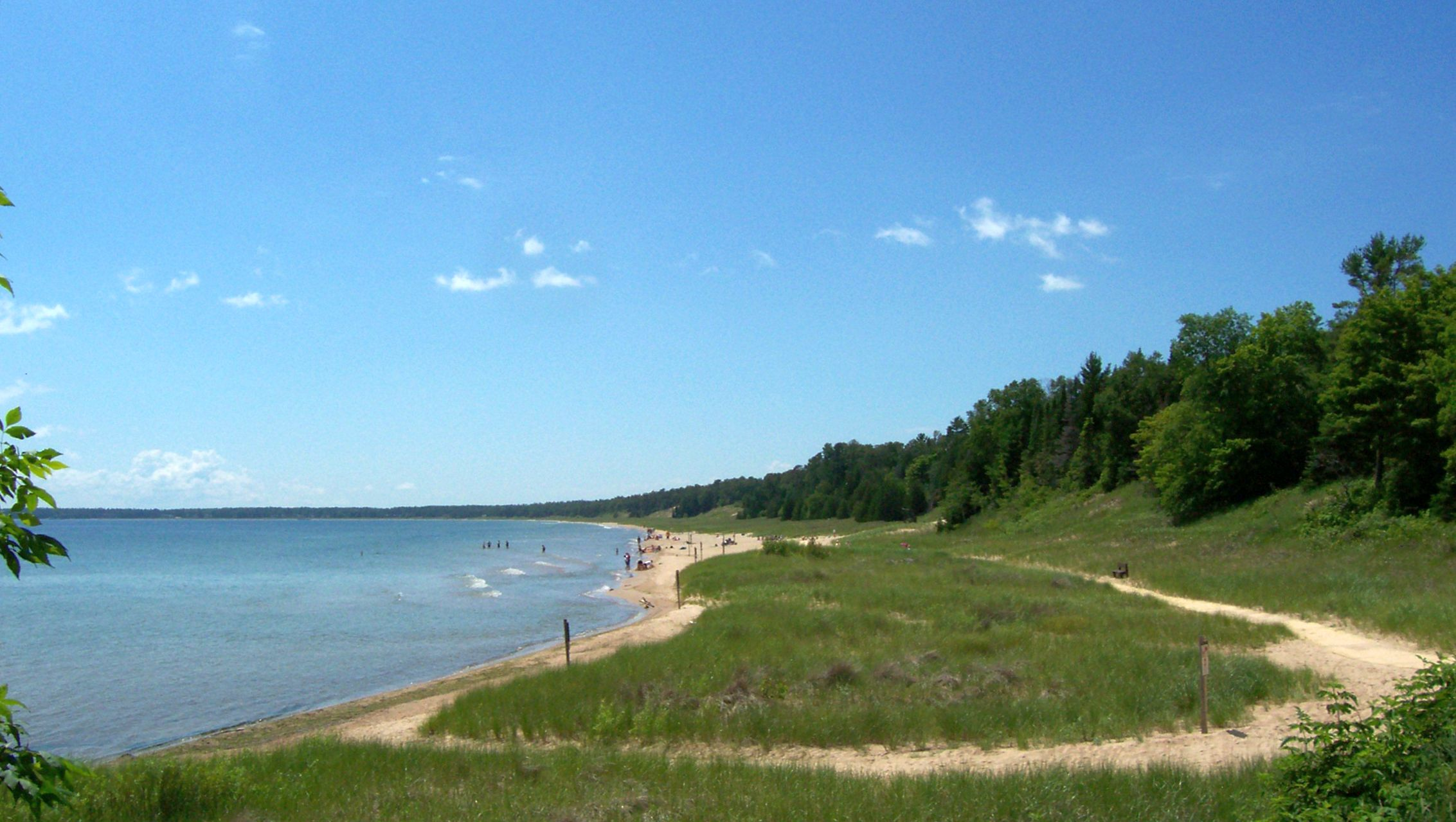 The beach for Whitefish Dunes State Park in northern Door County, Wisconsin, U.S. Whitefish point is visible trailing off in the distance at the upper left side of the image.